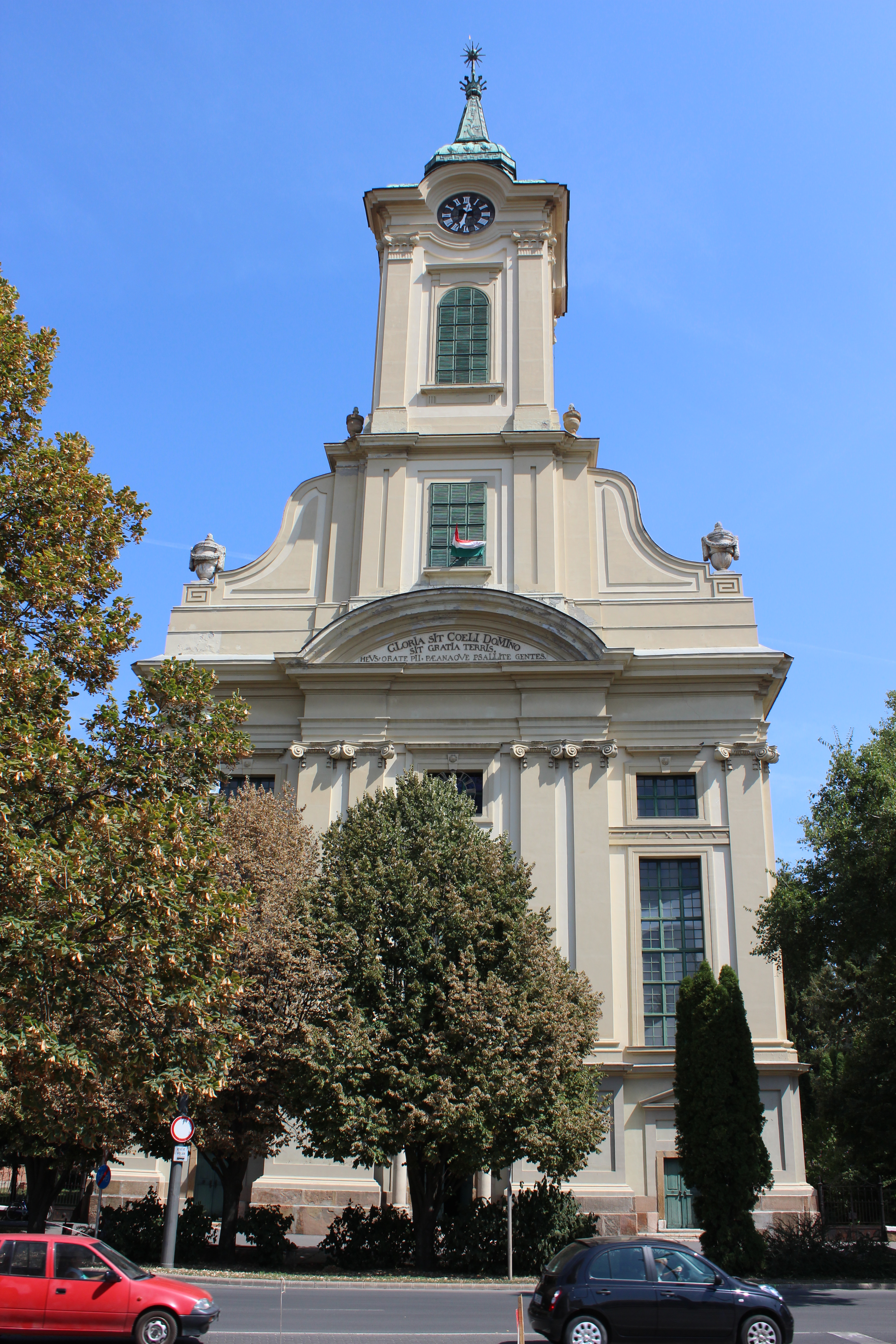 The great evangelic church (Békéscsaba, Hungary).